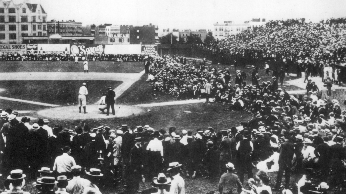 Taken before 1923. Leave it alone.